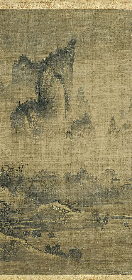 Landscapes in the Style of An Kyôn: Evening Bell from Mist-Shrouded Temple and Autumn Moon over Lake Dongting, Chosôn dynasty (1392–1910) Pair of hanging scrolls, ink on silk; each 88.3 x 45.1 cm, Metropolitan Museum of Art